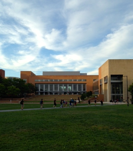 View of The Commons at the University of Maryland, Baltimore County. The Commons serves as the university's student union, meeting center, and activity center.